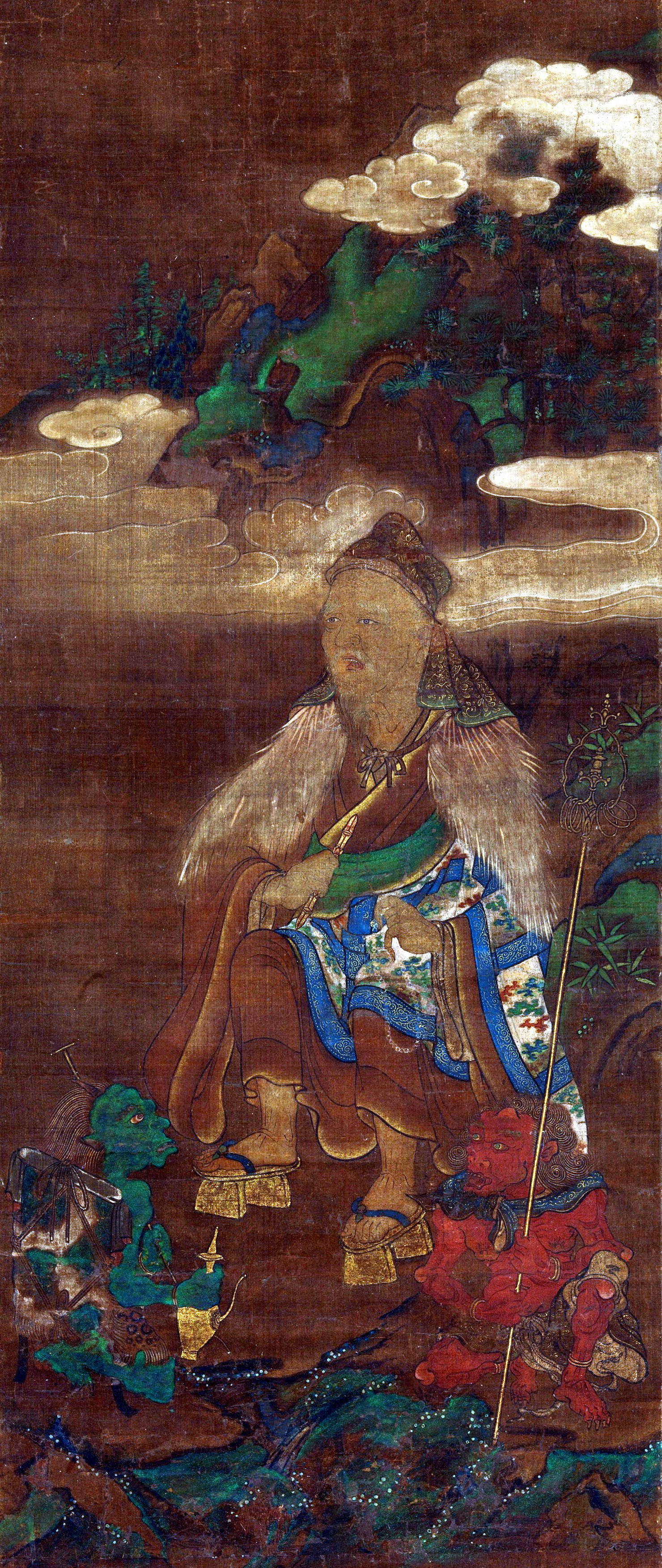 Portrait of En no Gyôja, Hanging scroll; ink and color on silk; portrayed in his conventional hood, monk's robe, straw mantle, and wooden sandals.